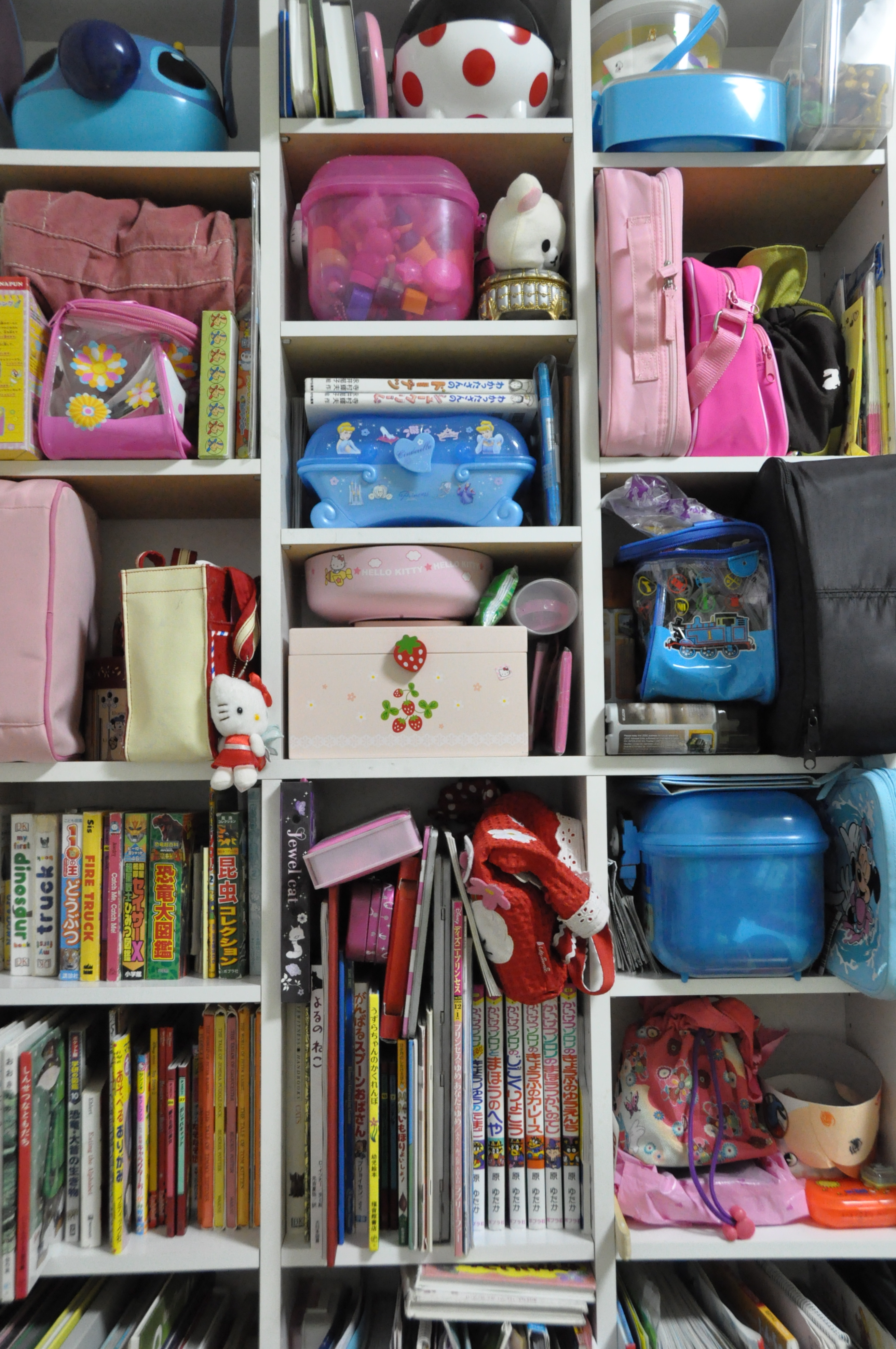 7 year-old daughter and 5 year-old son.